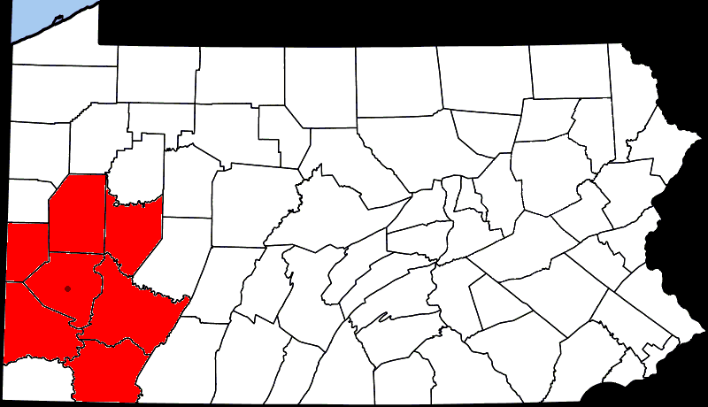 altered version of (Public domain map courtesy of The General Libraries, The University of Texas at Austin, modified to show counties relevant to article. Released under GFDL. See Wikipedia:U.S. county maps.)